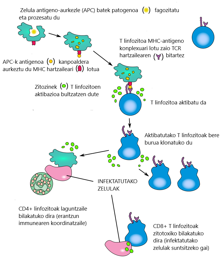 The T lymphocyte activation pathway is triggered when a T cell encounters its cognate antigen, coupled to a MHC molecule, on the surface of an infected cell or a phagocyte. T cells contribute to immune defenses in two major ways: some direct and regulate immune responses; others directly attack infected or cancerous cells.